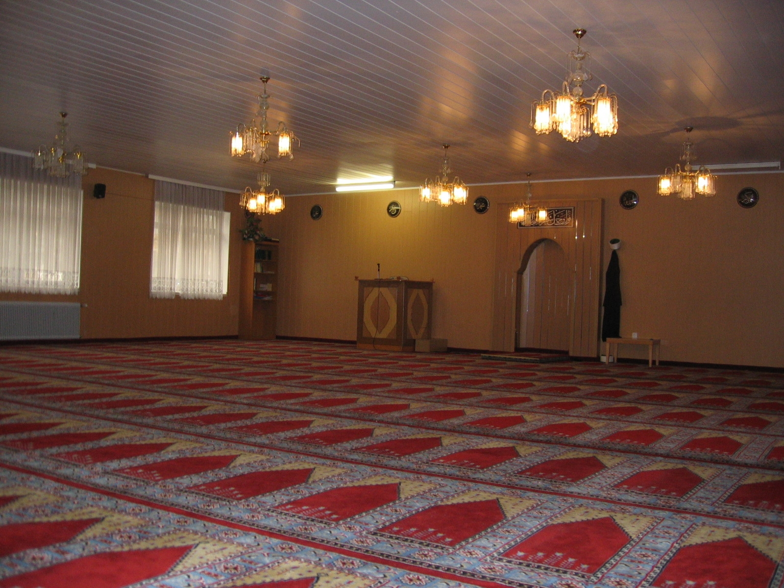 Mosque in Salzburg Schallmoos Photgraph by Gakuro